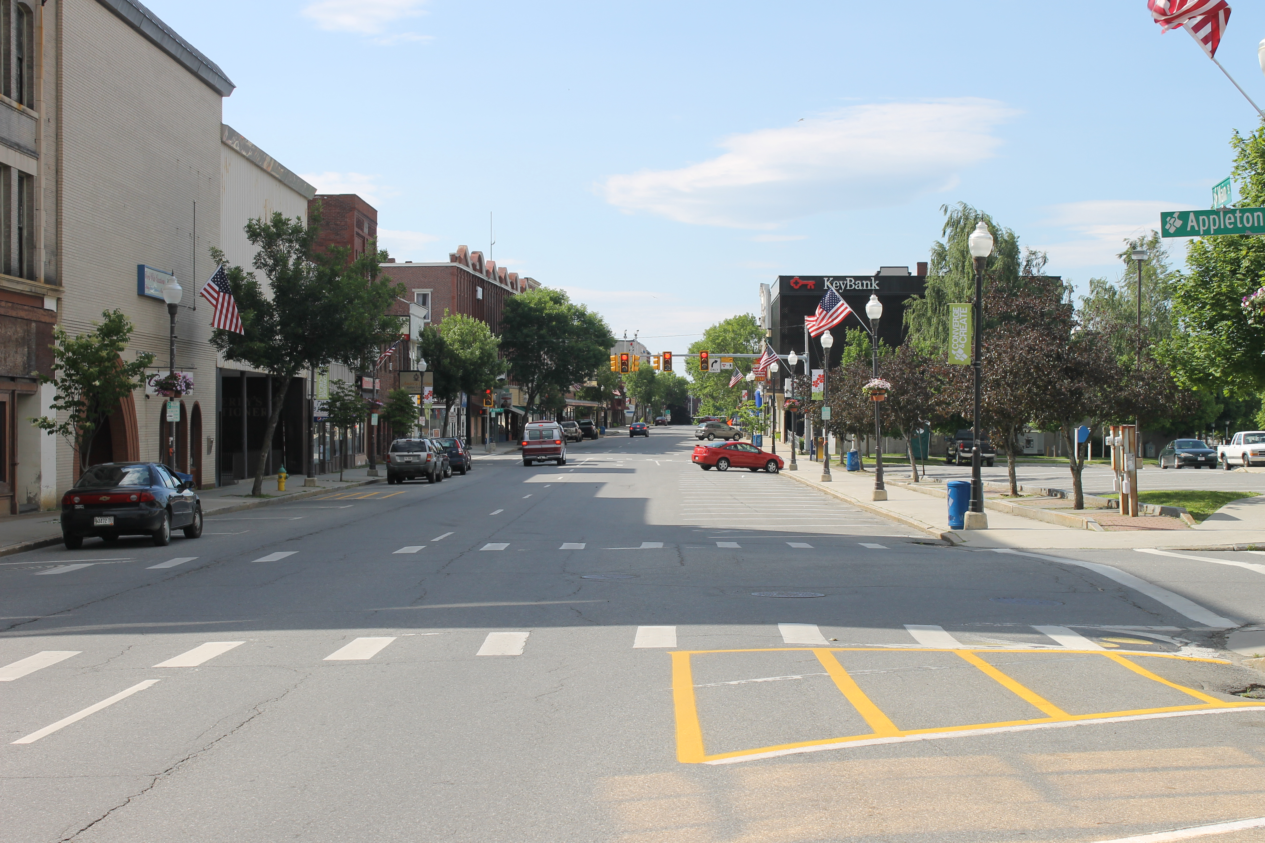 I took photo of downtown Waterville, ME, with Canon camera.